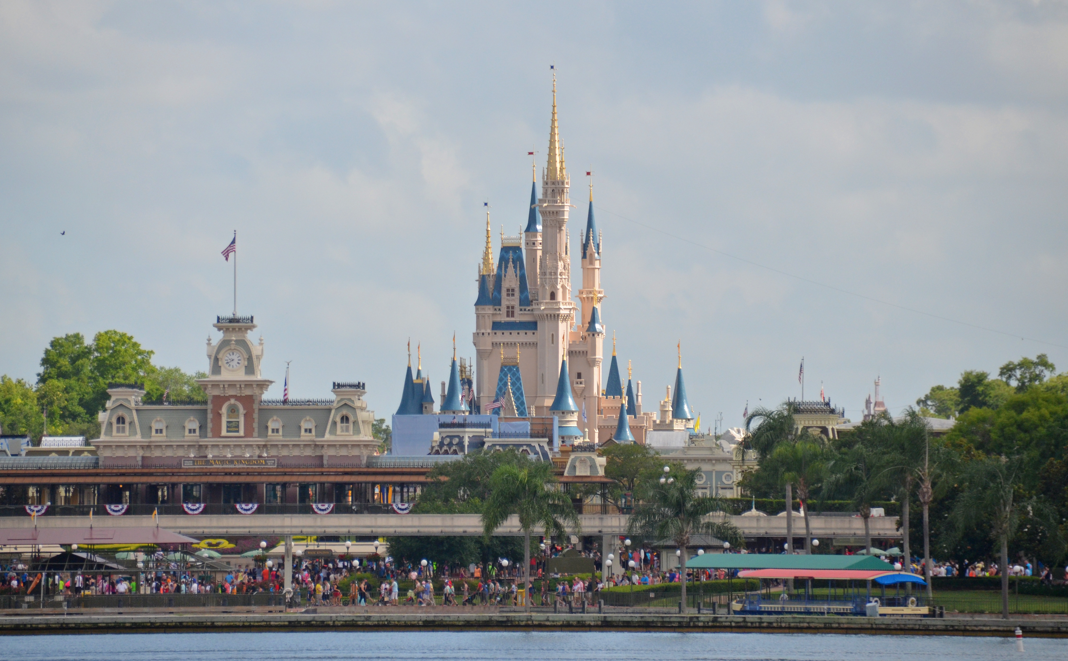 Magic Kingdom, Disney World, Orlando, Florida, USA